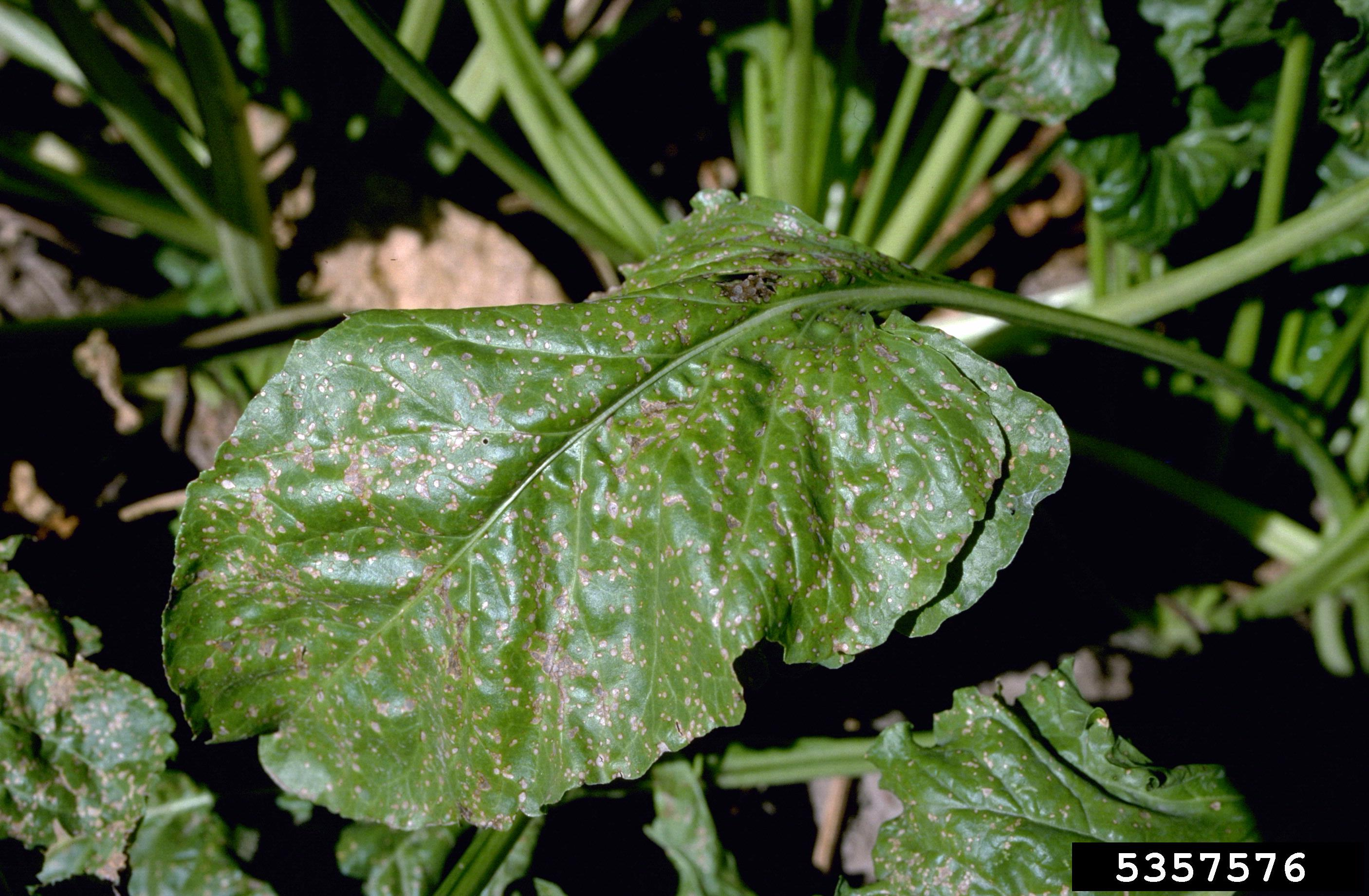 Sugar beet leaf displaying symptoms of infection with Cercospora leaf spot (Cercospora beticola)